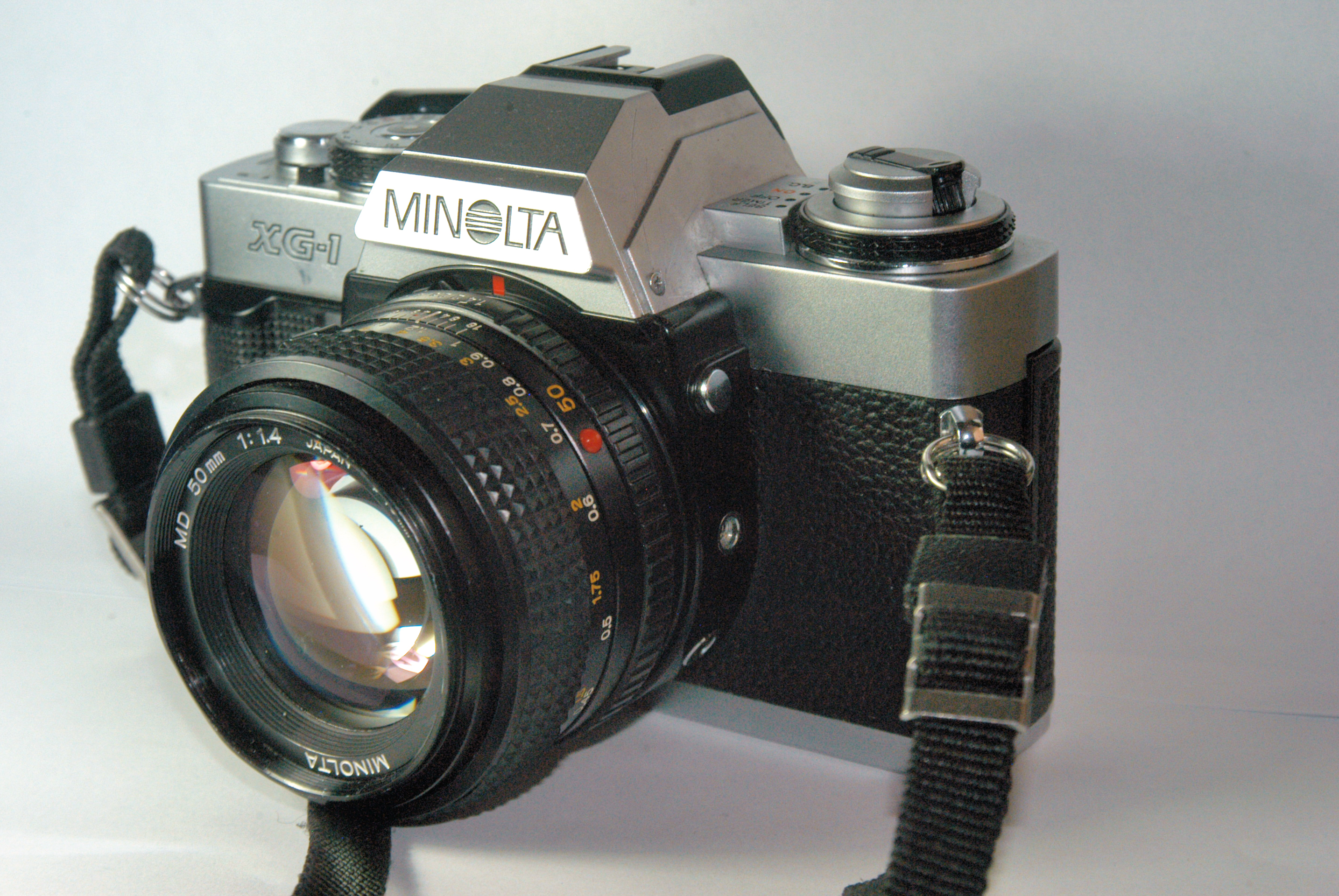 Minolta XG-1